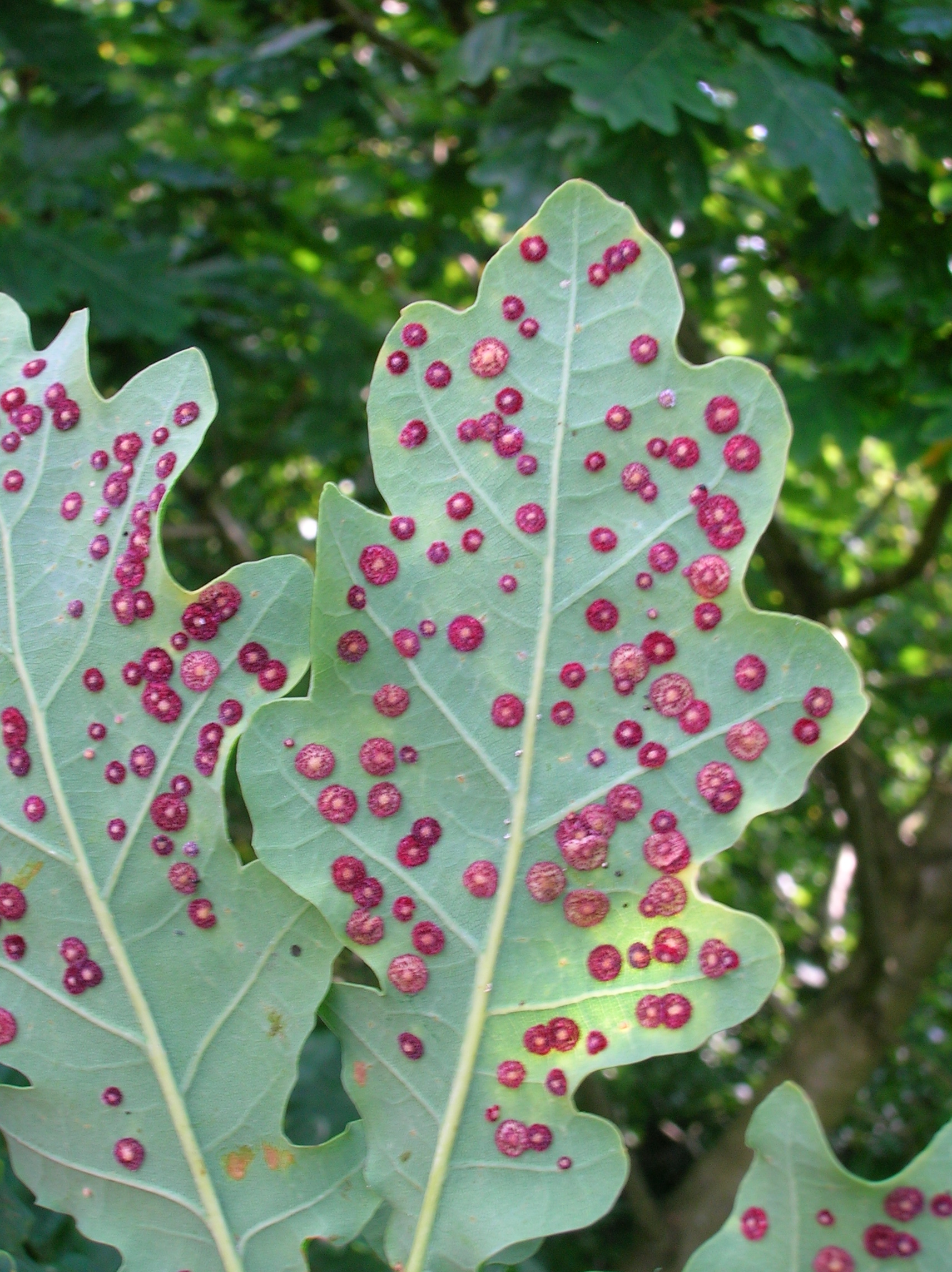 Neuroterus quercusbaccarum causing the Common Spangle gall on an oak leaf. Lynn Glen, Dalry, Scotland